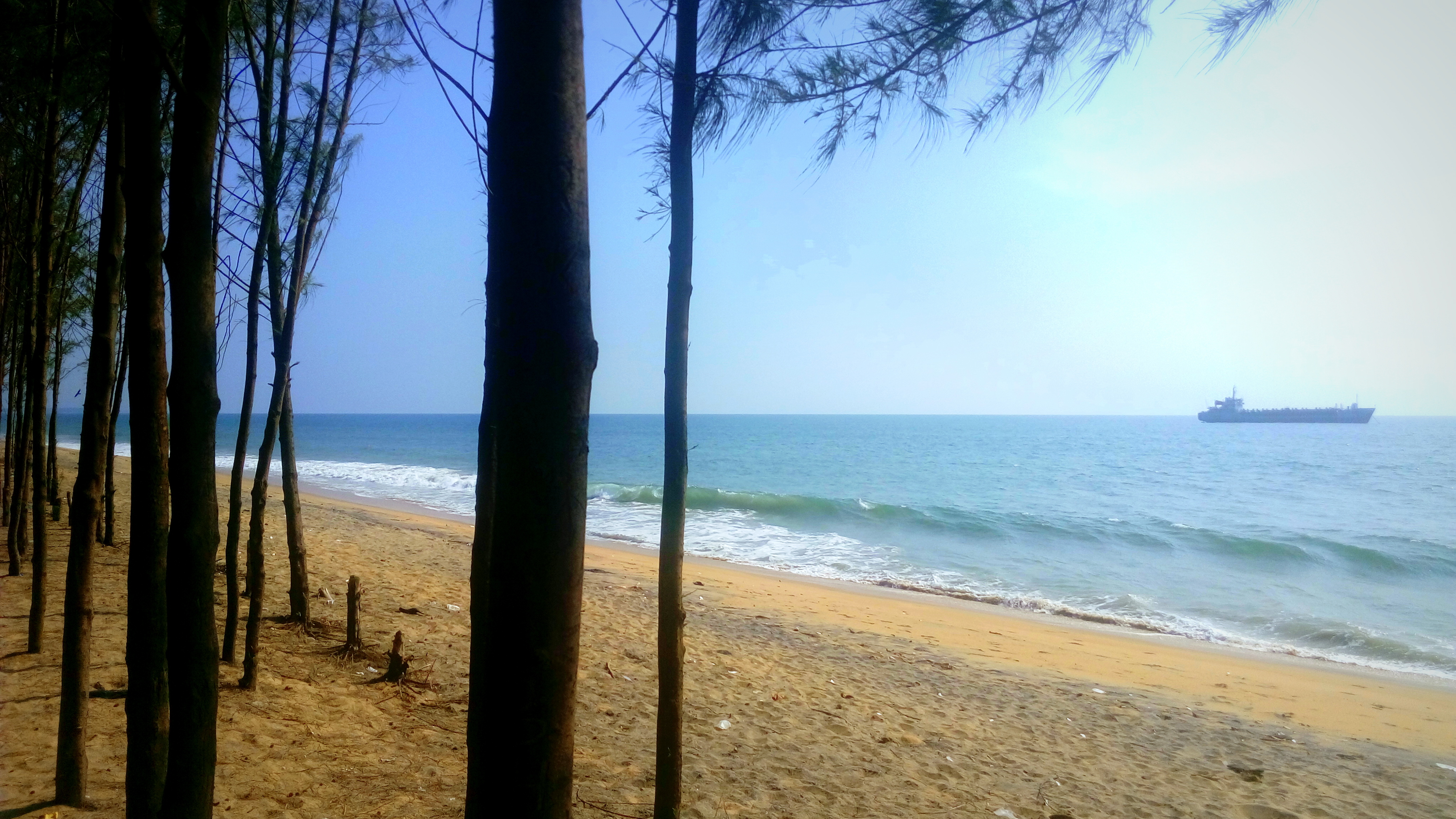 Mundakkal is a neighbourhood of Kollam city in India